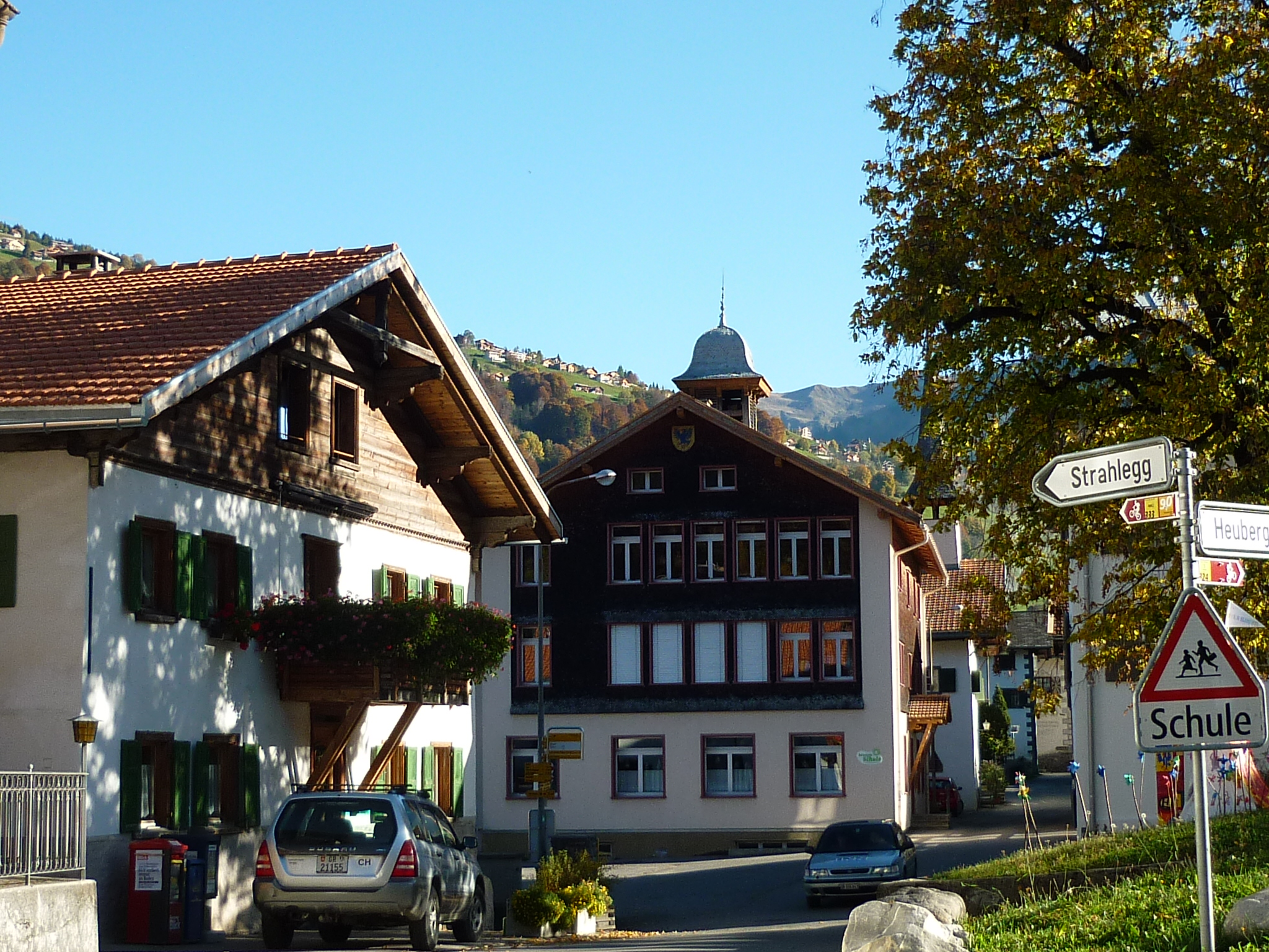 Türmlihaus